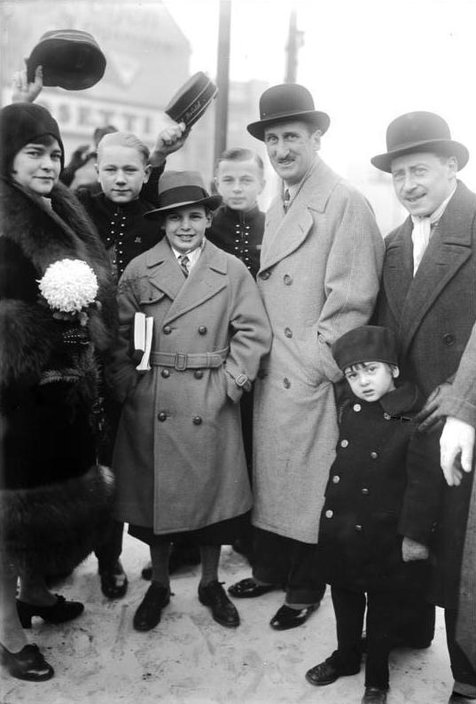 Jackie Coogan in Berlin! The famous movie prodigy Jackie Coogan and his parents arrived in Berlin to introduce themselves to the audience in a revue. Arrival Jackie Coogans at the station Friedrichstrasse in Berlin. Jackie Coogan in the midst of his parents. (English translation by Google)